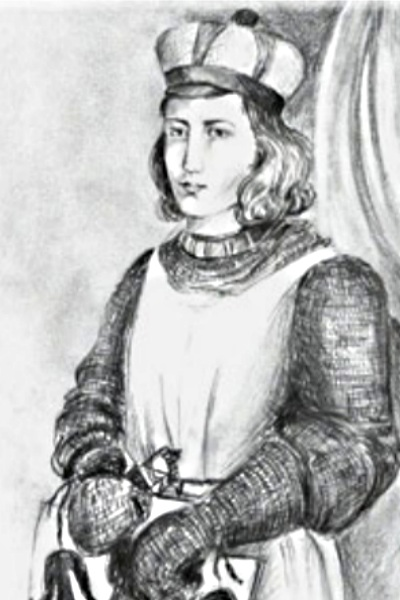 Przemko I of Scinawa